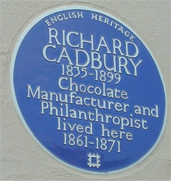 Blue plaque to Richard Cadbury at 17 Wheeley's Road, Edgbaston, Birmingham, England. Photographed by me 7 April 2007. Oosoom